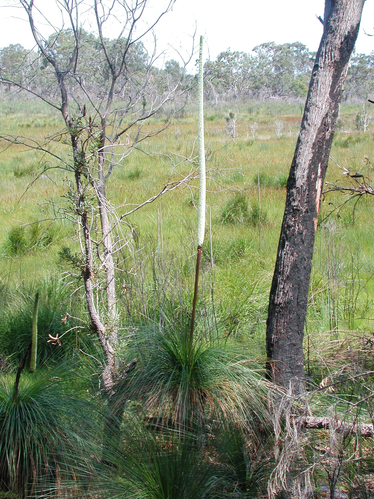 Grasbaum, Xanthorrhoea, Stradbroke Island, Queensland, Australia